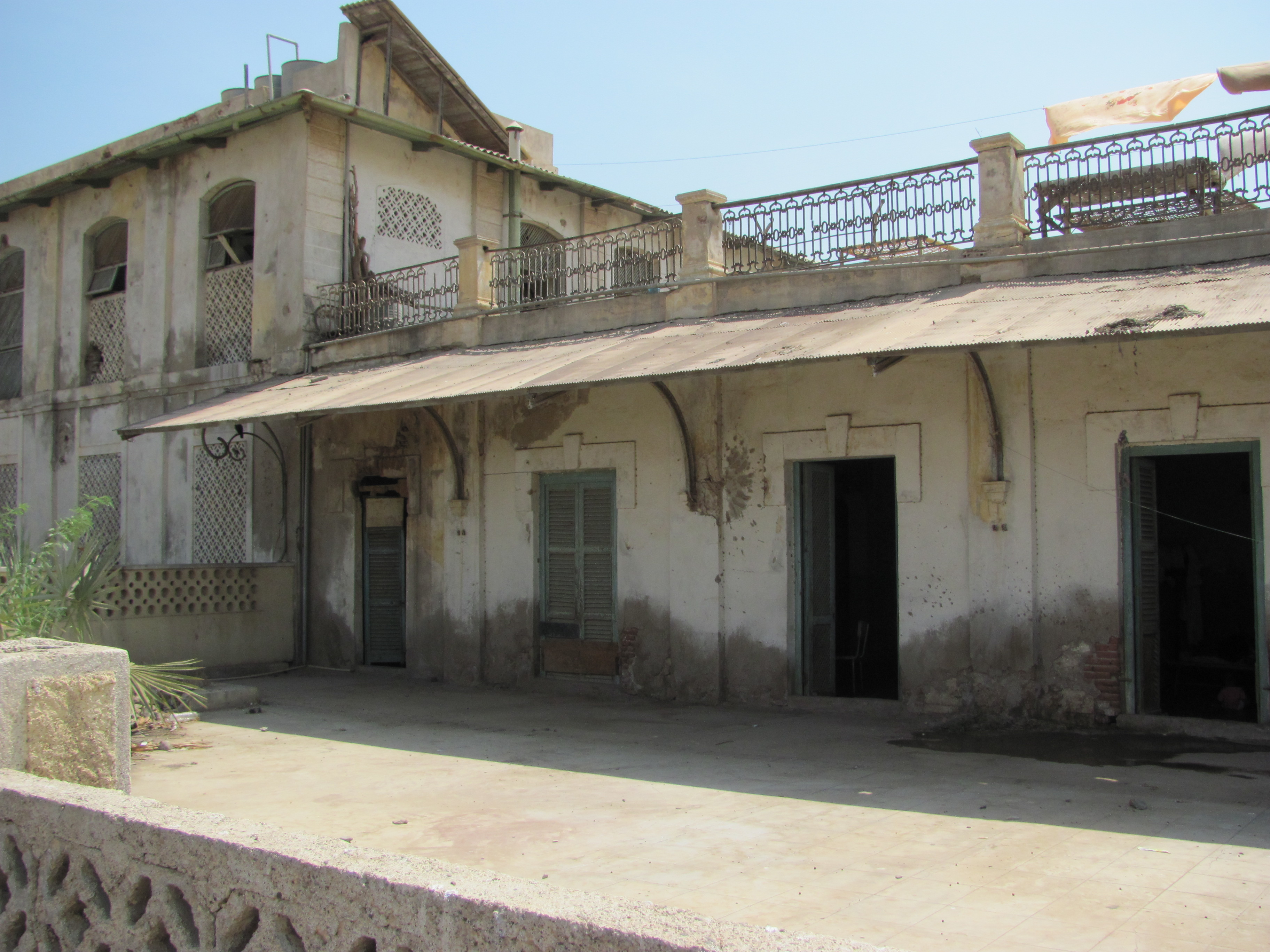 Remains of the (today privatised) station building of Massawa-Taulud (ex central station)